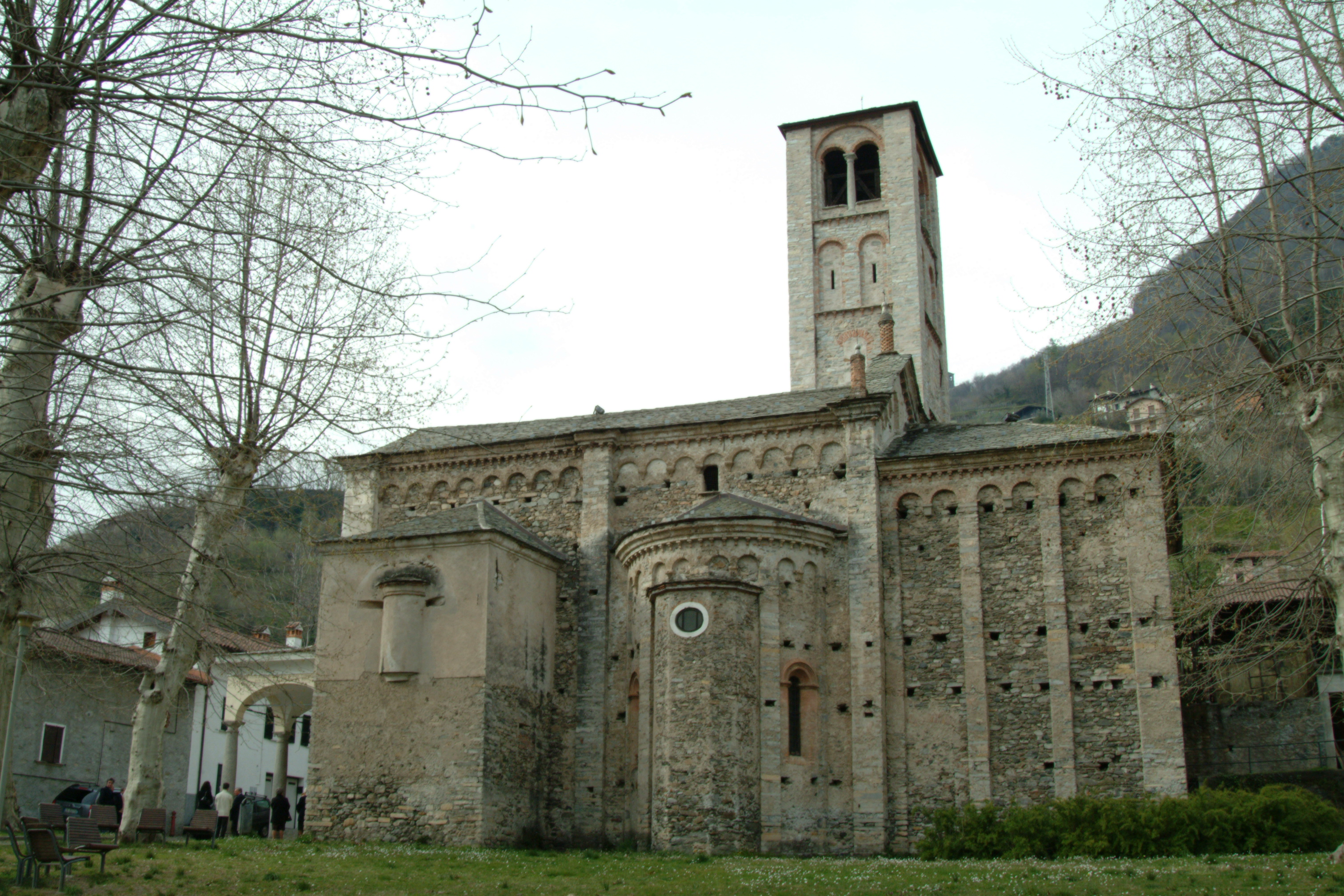 The church of SS.Gusmeo and Matteo in Gravedona, Como